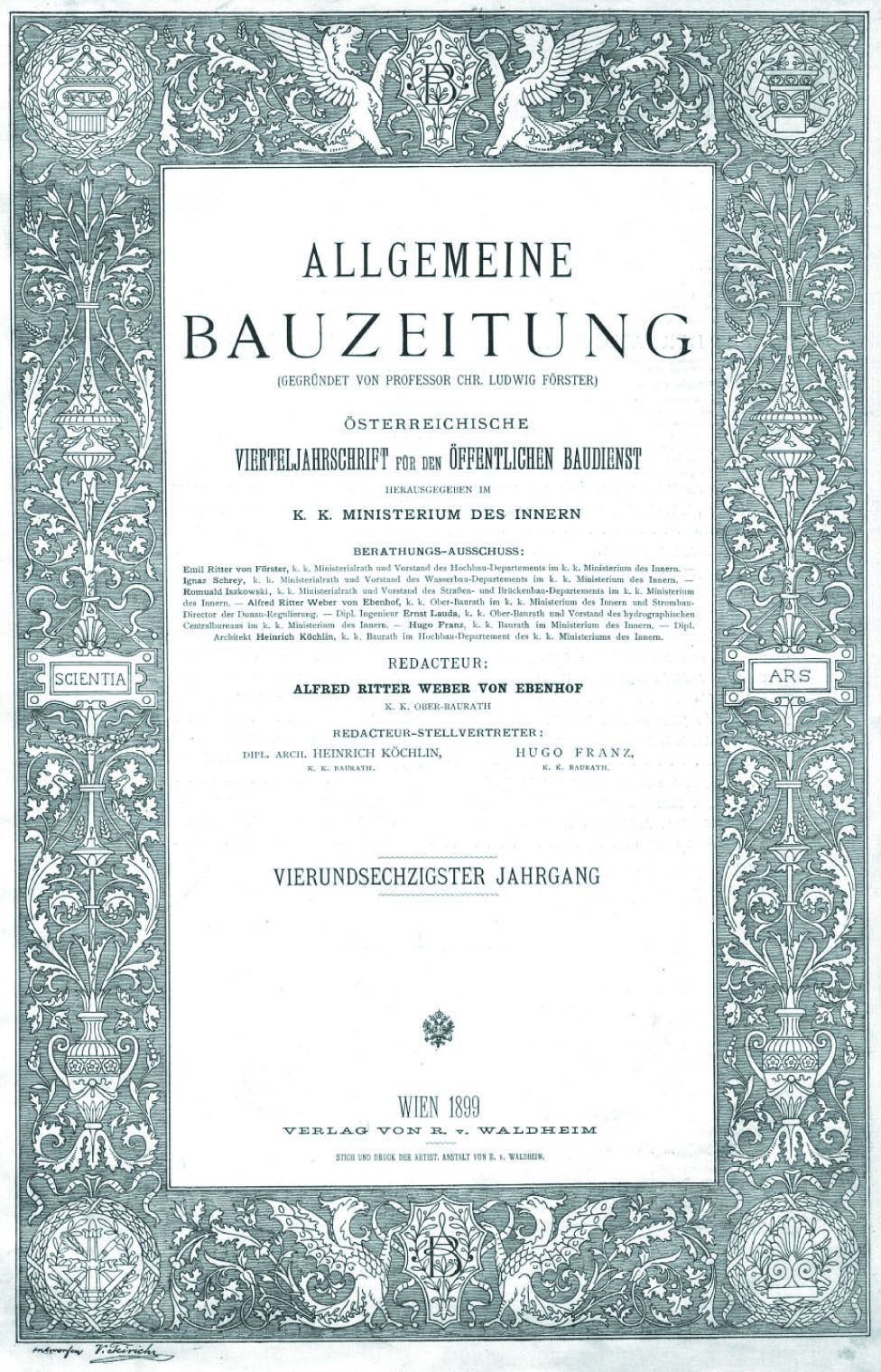 Allgemeine Bauzeitung, Title page